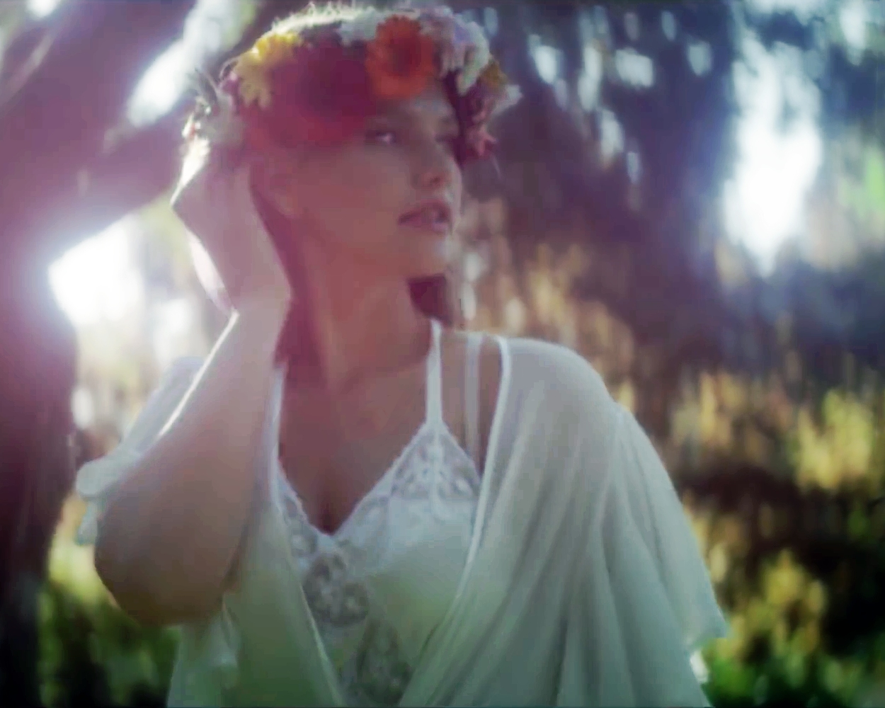 A Tribute to Elly Mayday (A Perfect 14) Ashley Shandrel Luther April 15, 1988-March 1, 2019 Filmed For the Feature Documentary A Perfect 14 Starring Elly Mayday Written & Directed by Giovanna Morales Vargas Produced & Edited by James Earl O’Brien Segment Credits: Camera: Rob Bannister Color: Aerlan Barrett Hair & Makeup: Elizabeth McLeod Music: Dissociation (Most Sad Piano Music) - NAOYA.S